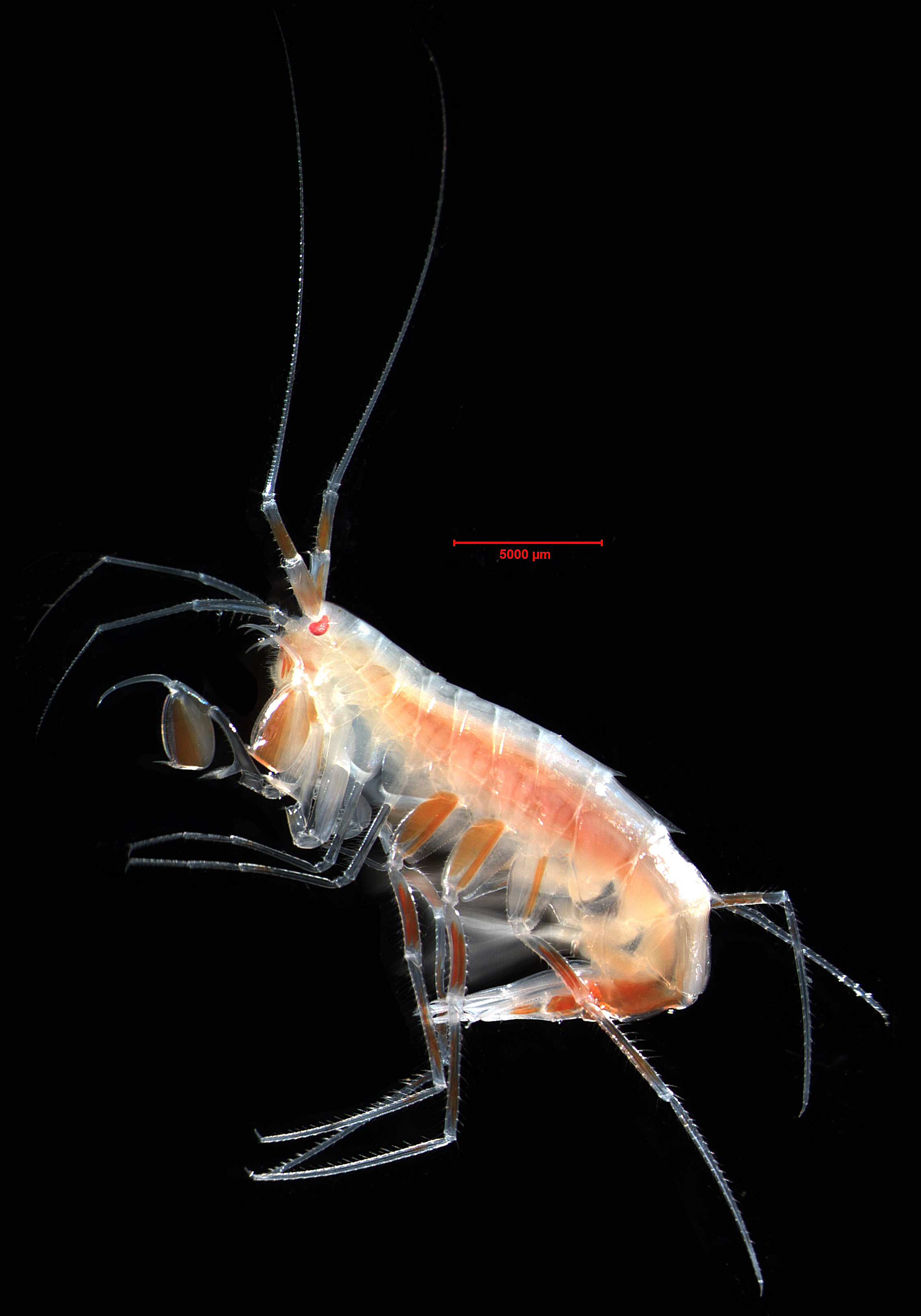 Amphipod taken at Alaska, Beaufort Sea, North of Point Barrow.